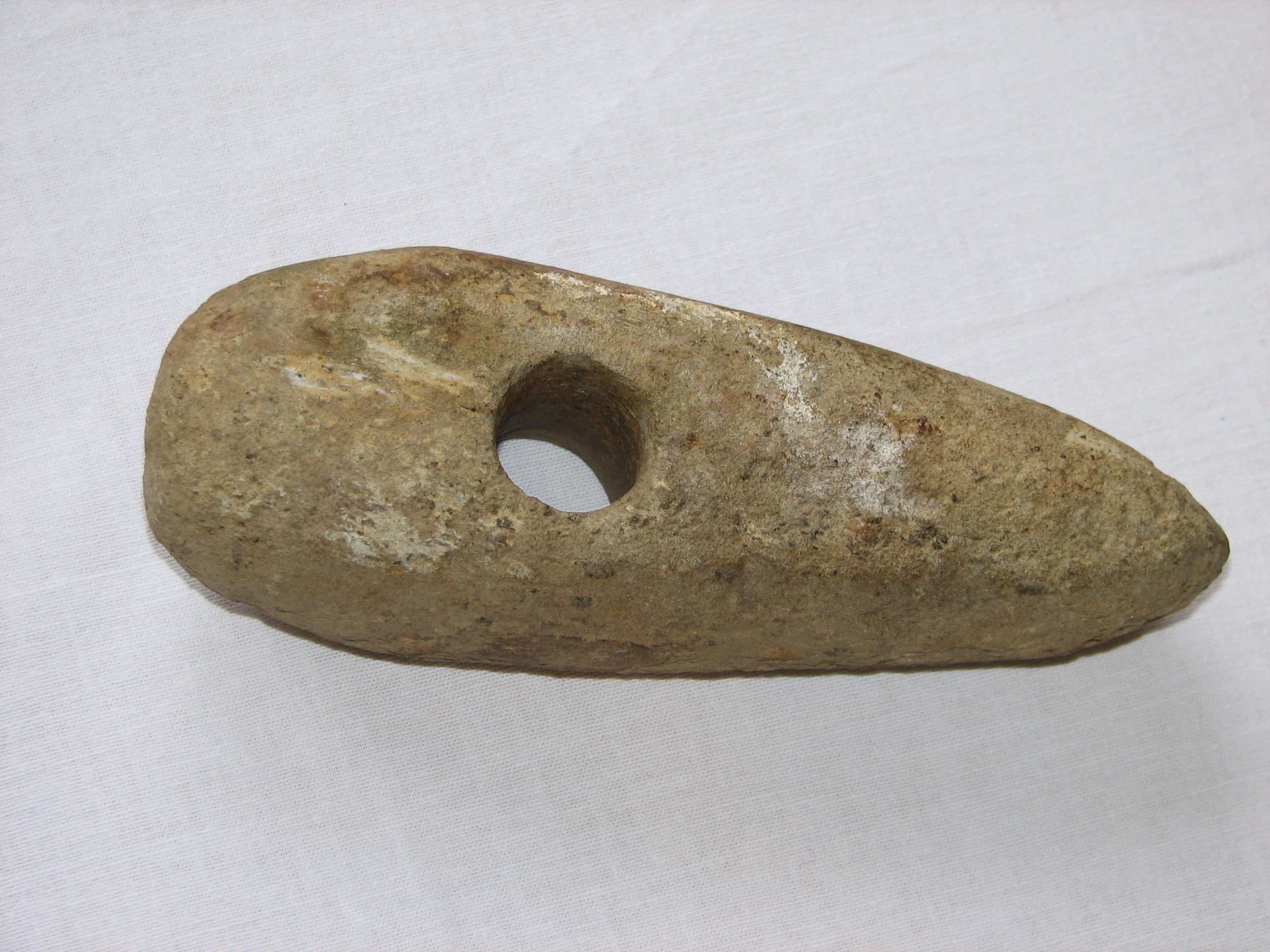 Stone axe hammer from neolithic, 8000 years old, found near Moravče pri Gabrovki in Slovenia.